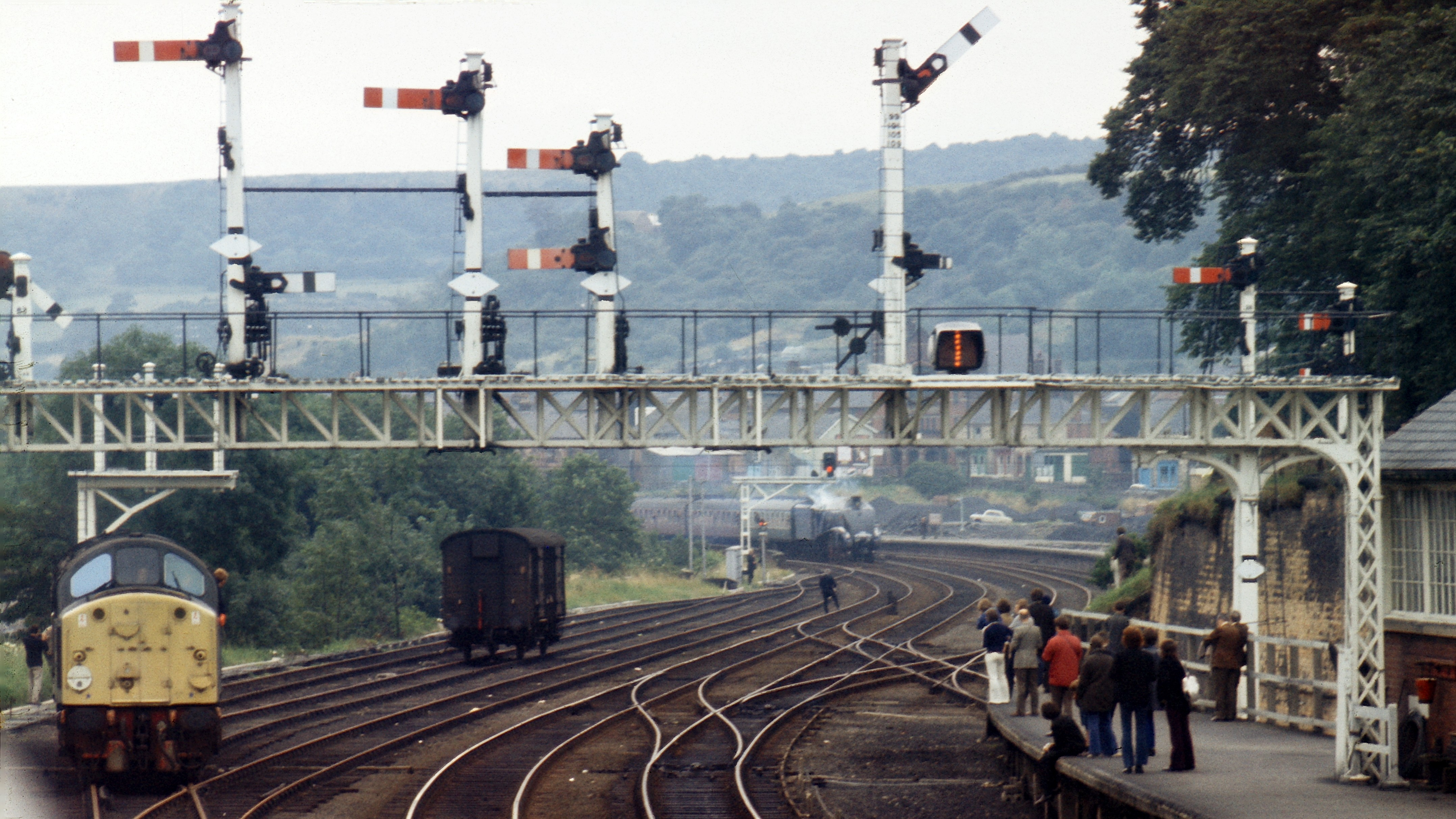 Signal gantry on the approach to Scarborough Railway Station The photograph, which was taken from the road bridge that connects Westwood with Belgrave Terrace, is of the signal gantry on the approach to Scarborough Railway Station (behind the viewpoint). The photograph was taken from the road bridge that connects Westwood with Belgrave Terrace. The small group of people on the left is at the end of the redundant Platform 1a, which used to be the depart/arrival platform for the Whitby trains. The approaching locomotive is Mallard, which was pulling a 'special' train from York. See also, 1724038. - - - The data given for the date taken is the processing date on the slide and therefore could have been taken several weeks earlier. - - - See also these photographs by: David Pickersgill (2008) : 923695 and David Rogers (2010) : 1730170.